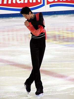 Yang Zhixue during his free skate at the 2004 Junior Grand Prix event in Germany